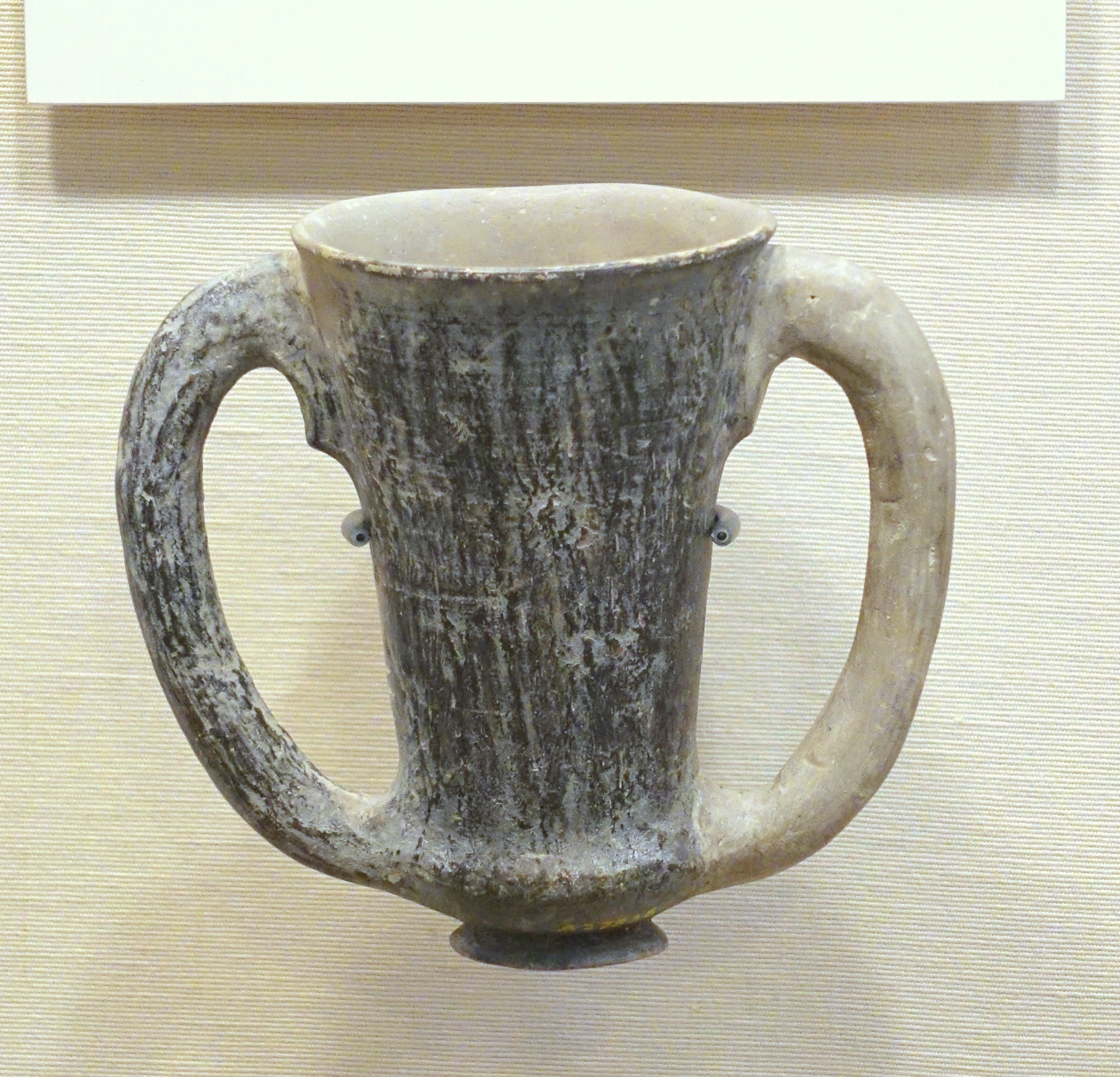 Exhibit in the Oriental Institute Museum, University of Chicago, Chicago, Illinois, USA. This work is old enough so that it is in the public domain.